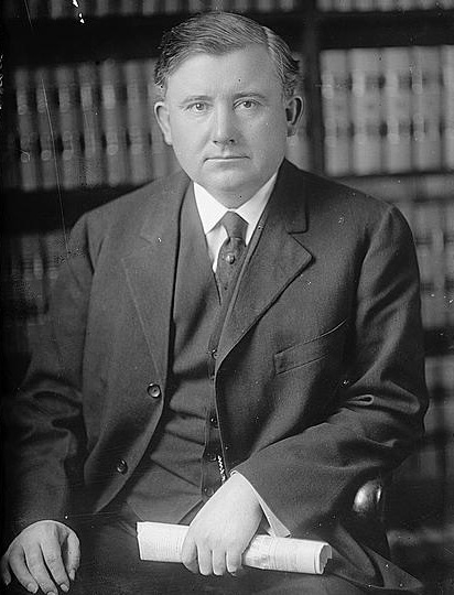 Martin W. Littleton, Congressman from New York